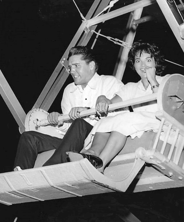 Photo of Elvis Presley and his girlfriend at the time, Anita Wood, riding a ferris wheel.